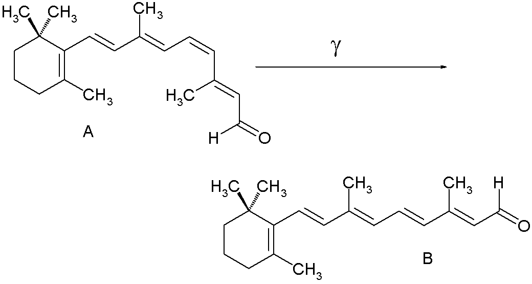 Retinal Cis and Trans